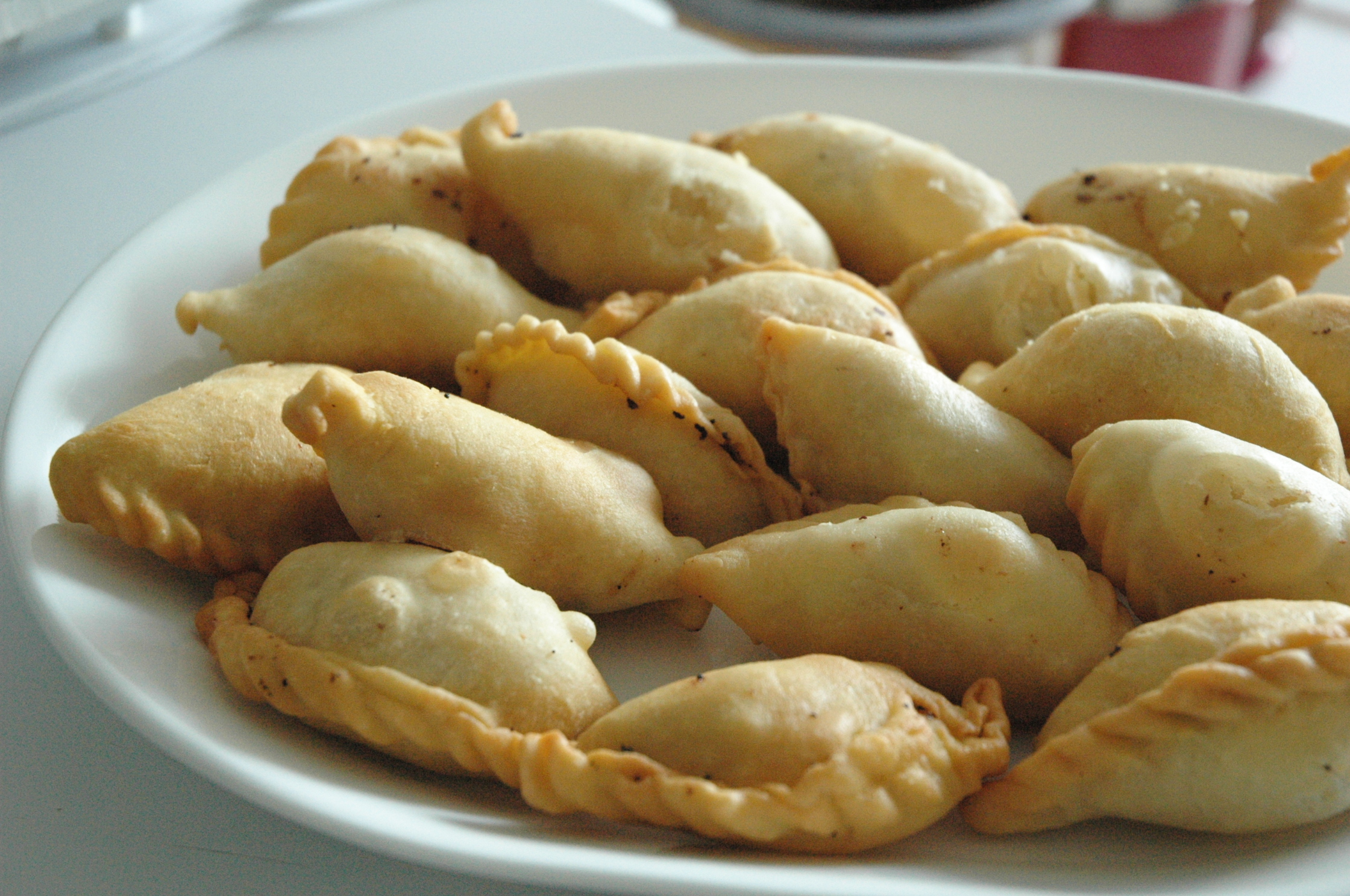 A plate full of Gujhia